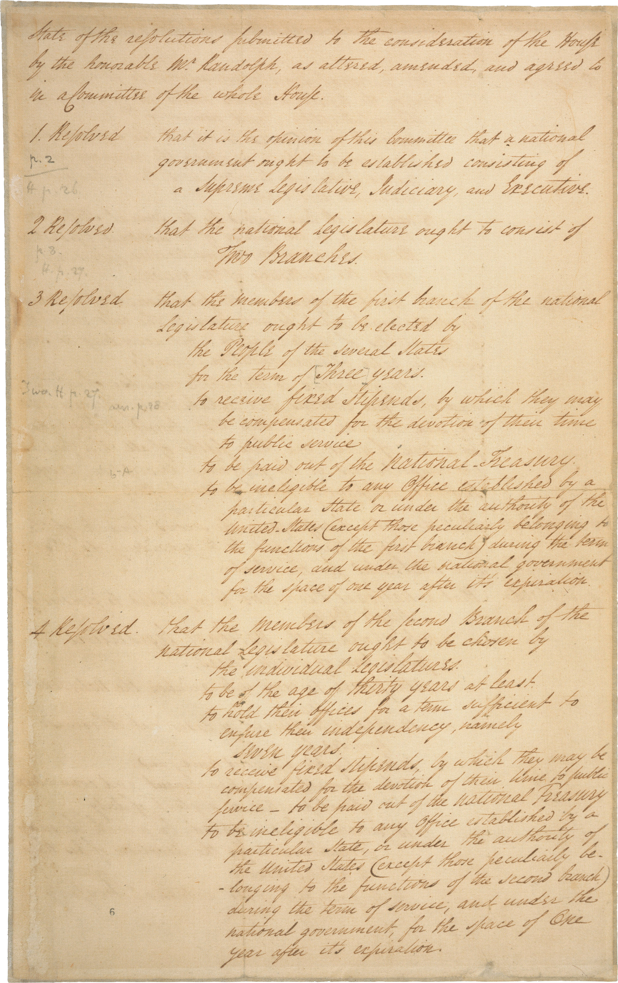 The front page of the Virginia Plan document.